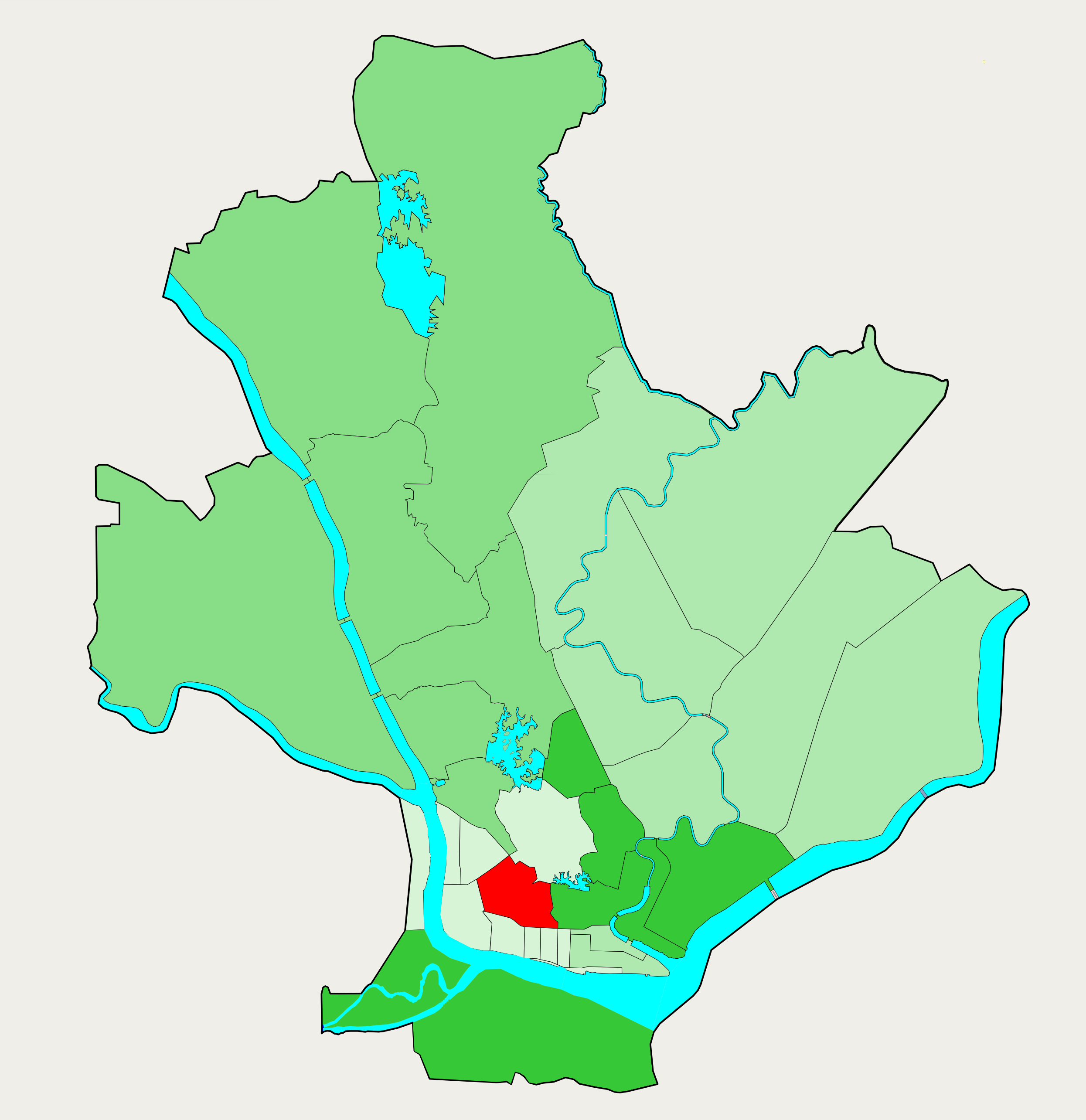 Dagon Township of Yangon (marked in red)